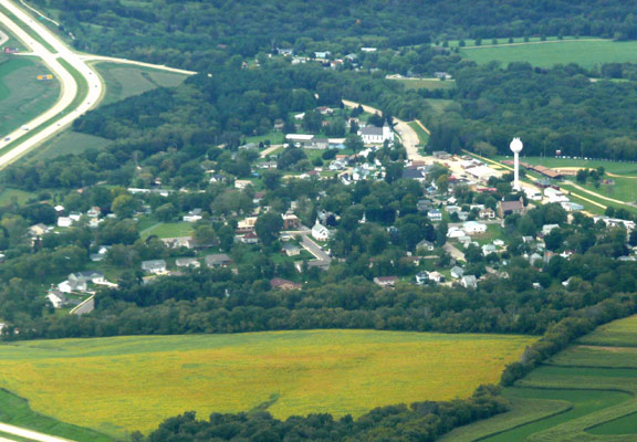 Aerial photo of Ridgeway WI taken on Sept 9, 2007 by Brian Baillod. This belongs in the Ridgeway, WI Village article